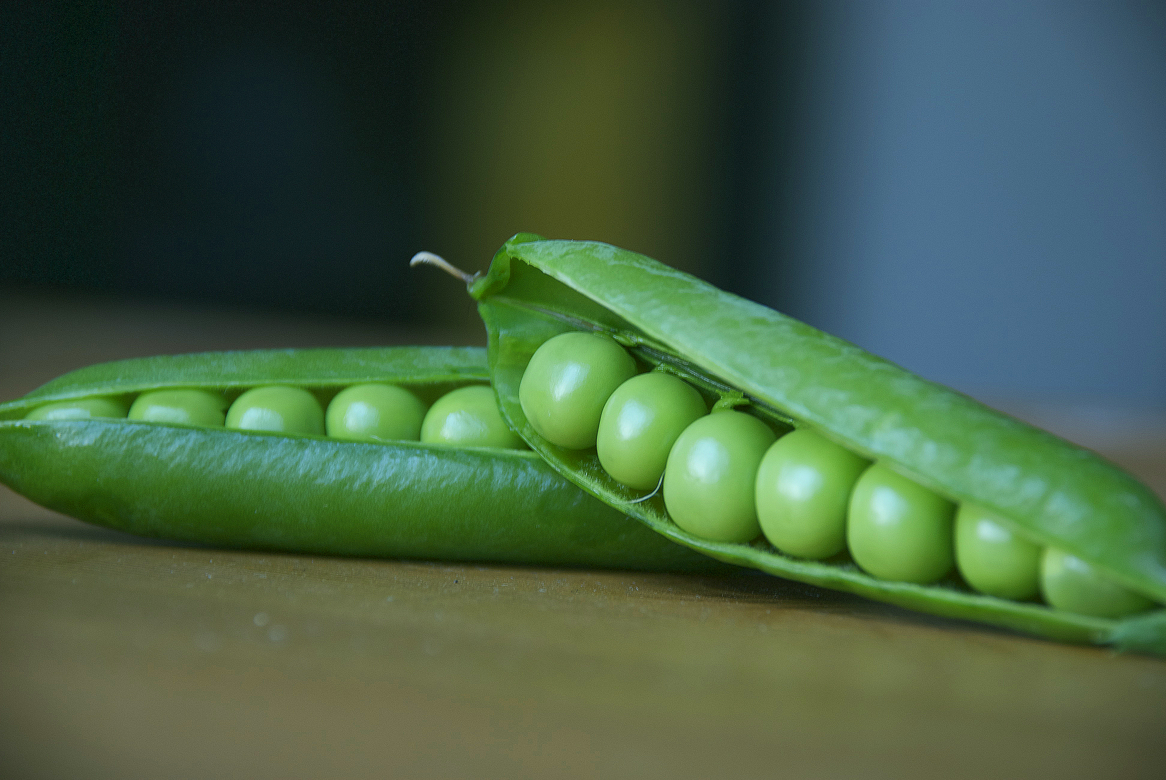 Peas in pods.